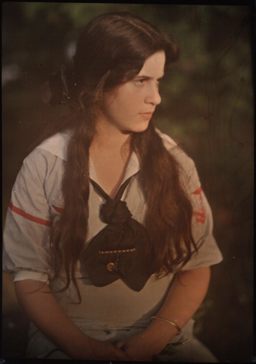 Katherine Stieglitz From: Alfred Stieglitz / Georgia O'Keeffe archive Autochrome attributed to Stieglitz, but may possibly be the work of Edward Steichen or Frank Eugene.